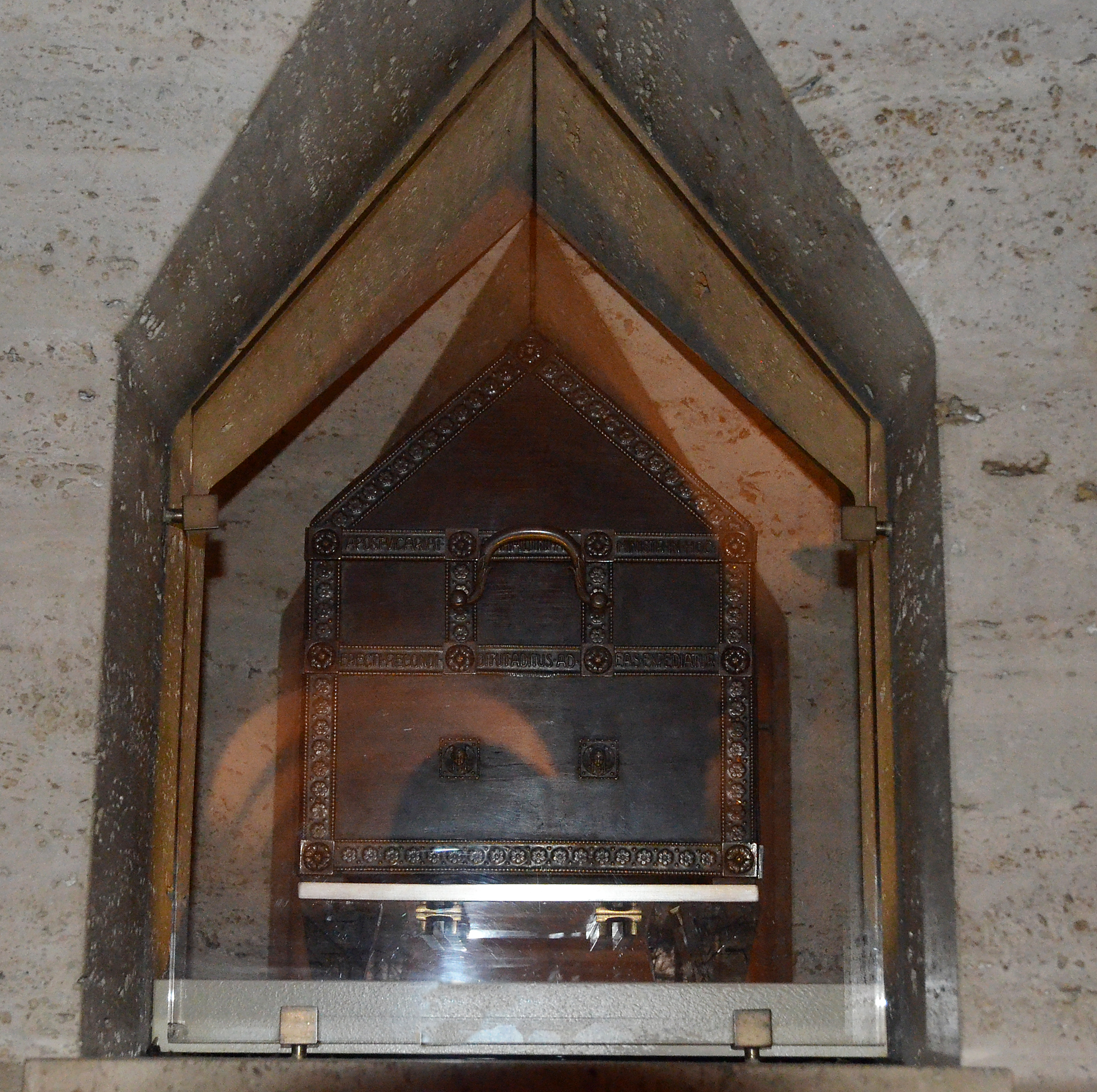 Paderborn Cathedral, Crypt, ebony shrine with the relics of St. Liborius, Paderborn, North Rhine Westphalia, GermanyThis is a photograph of an architectural monument., no. 3